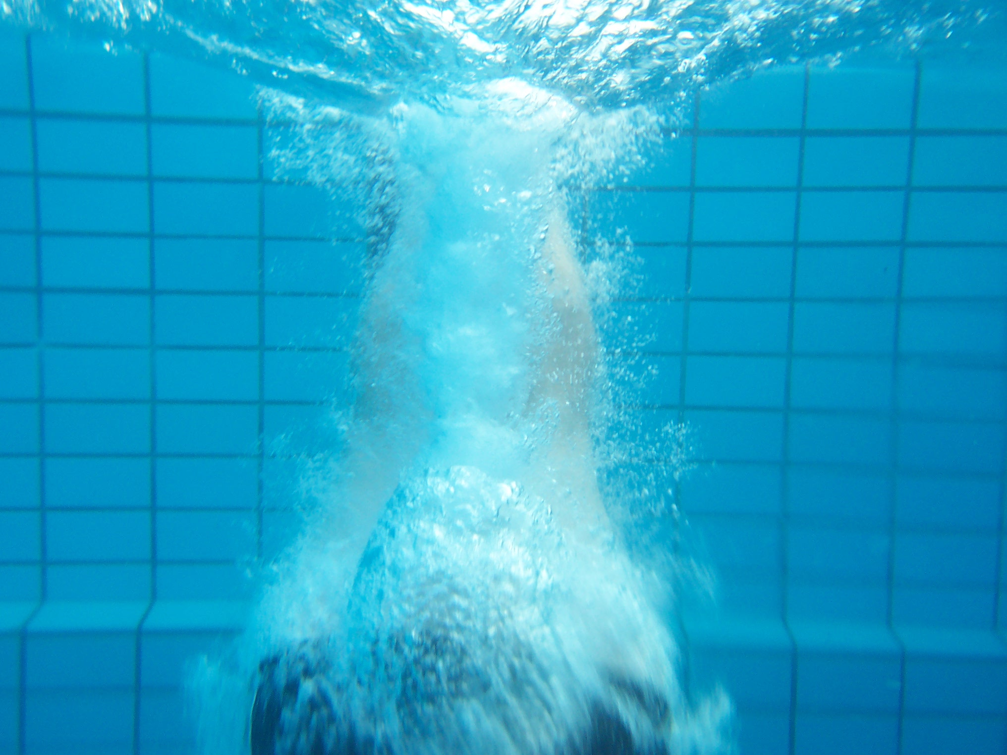 diving like a cannonball into the water